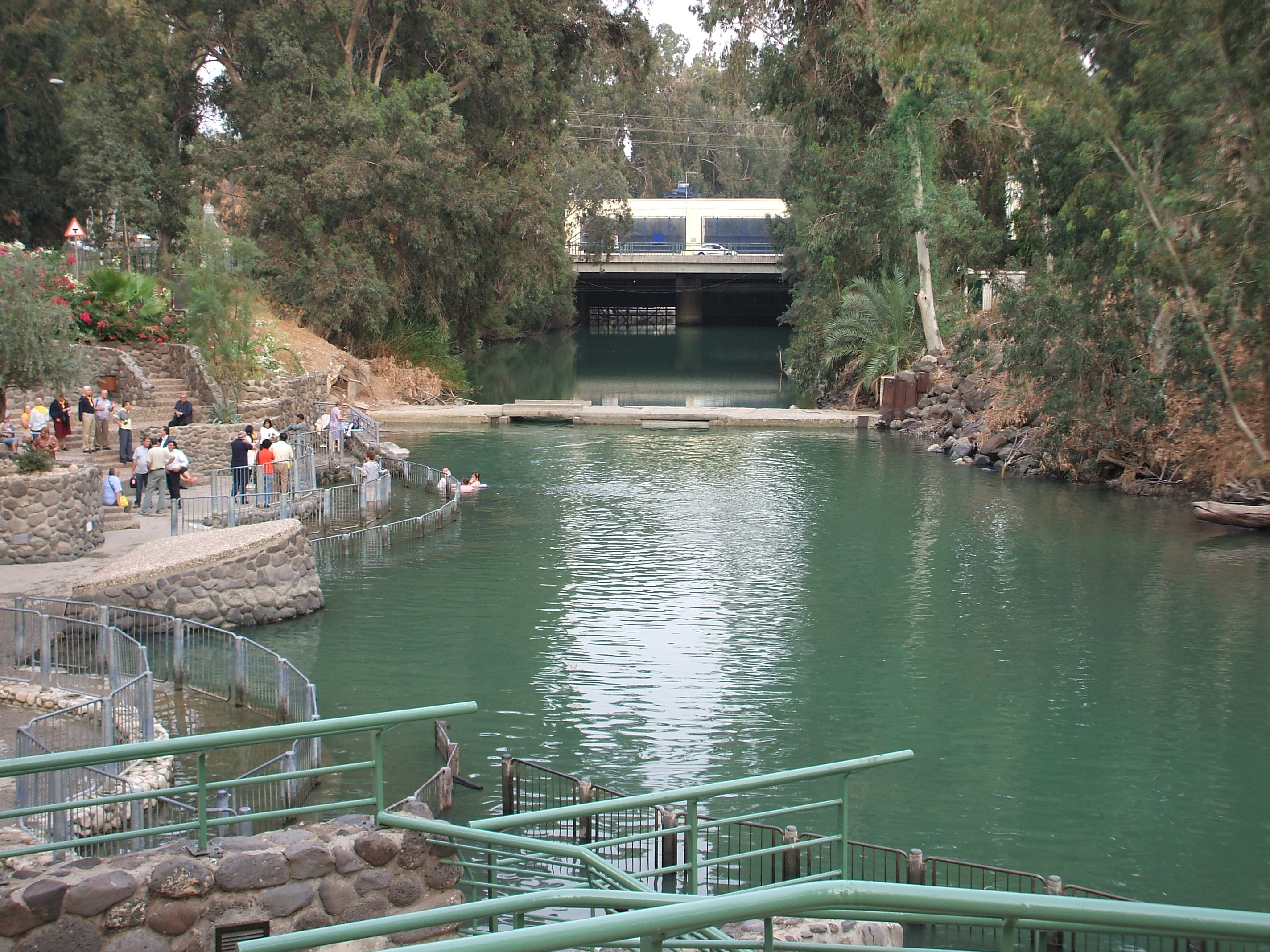 Yardenit Baptizing Site & Deganya Dam, Jordan River